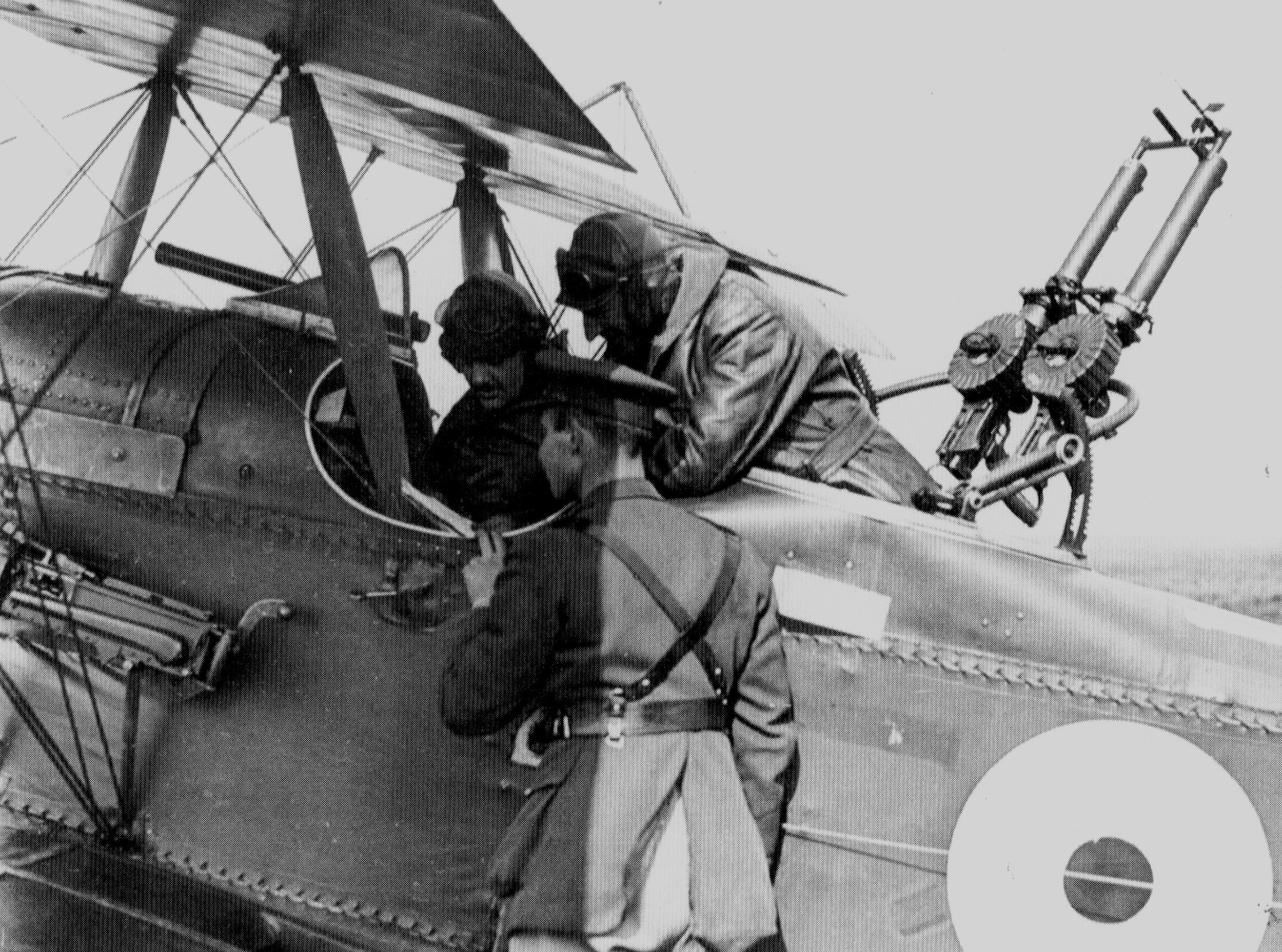 Aircrew of RFC R.E.8 briefed by intelligence officer